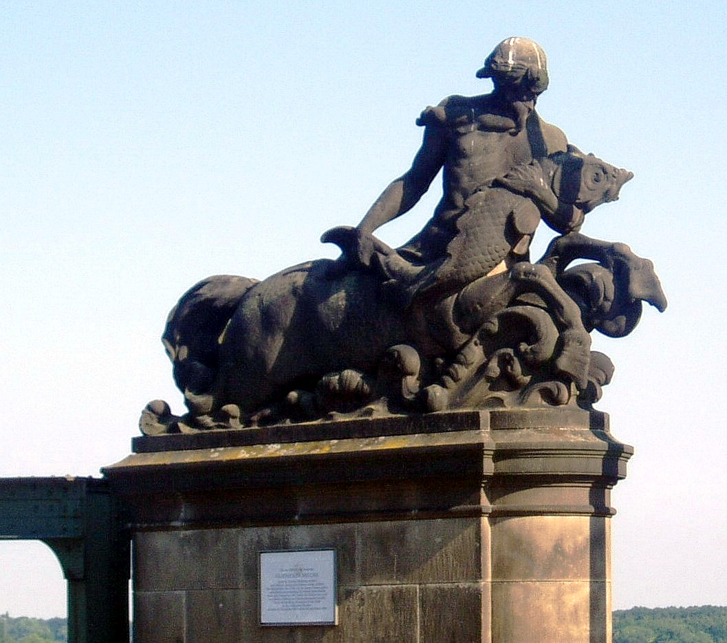 Centaur at the Glienicke Bridge, Potsdam/Berlin, Germany. Sculptor: Stephan Walter, 1908